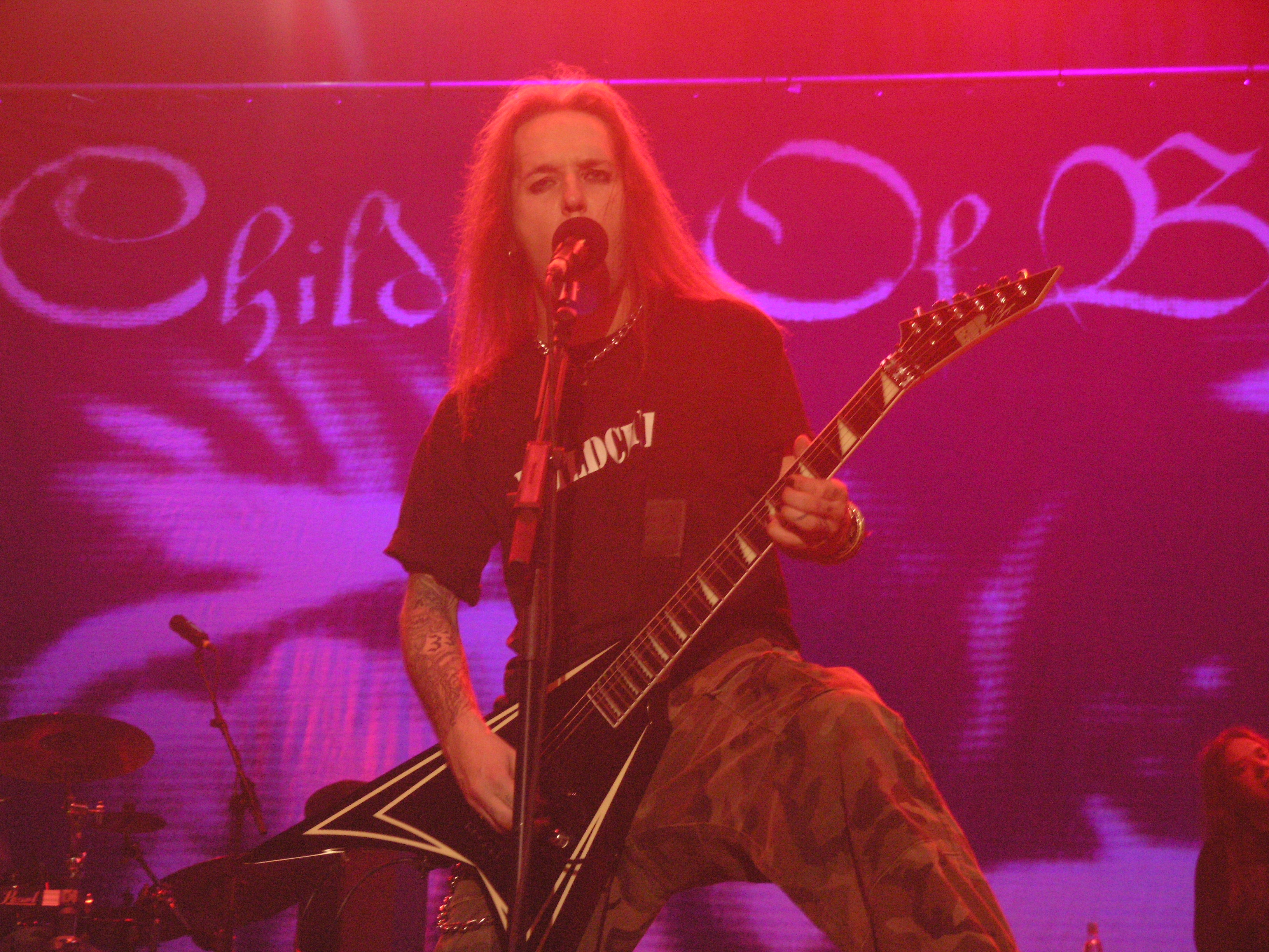 Alexi Laiho from Children of Bodom during Masters of Rock 2007 festival